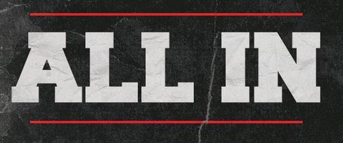 Logo of All In